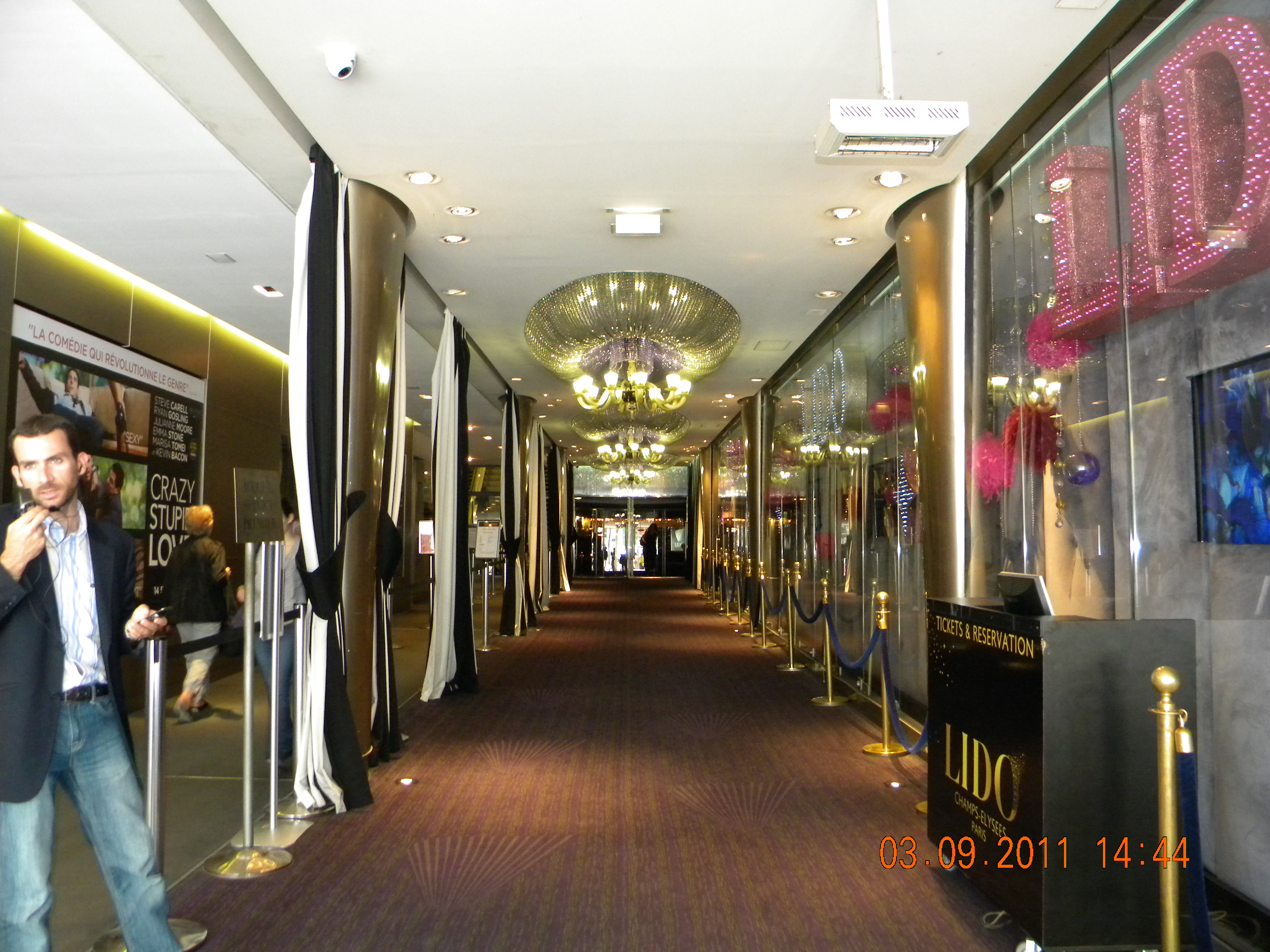 Casino LIDO on Champs Elysees, Paris (interior) (1)